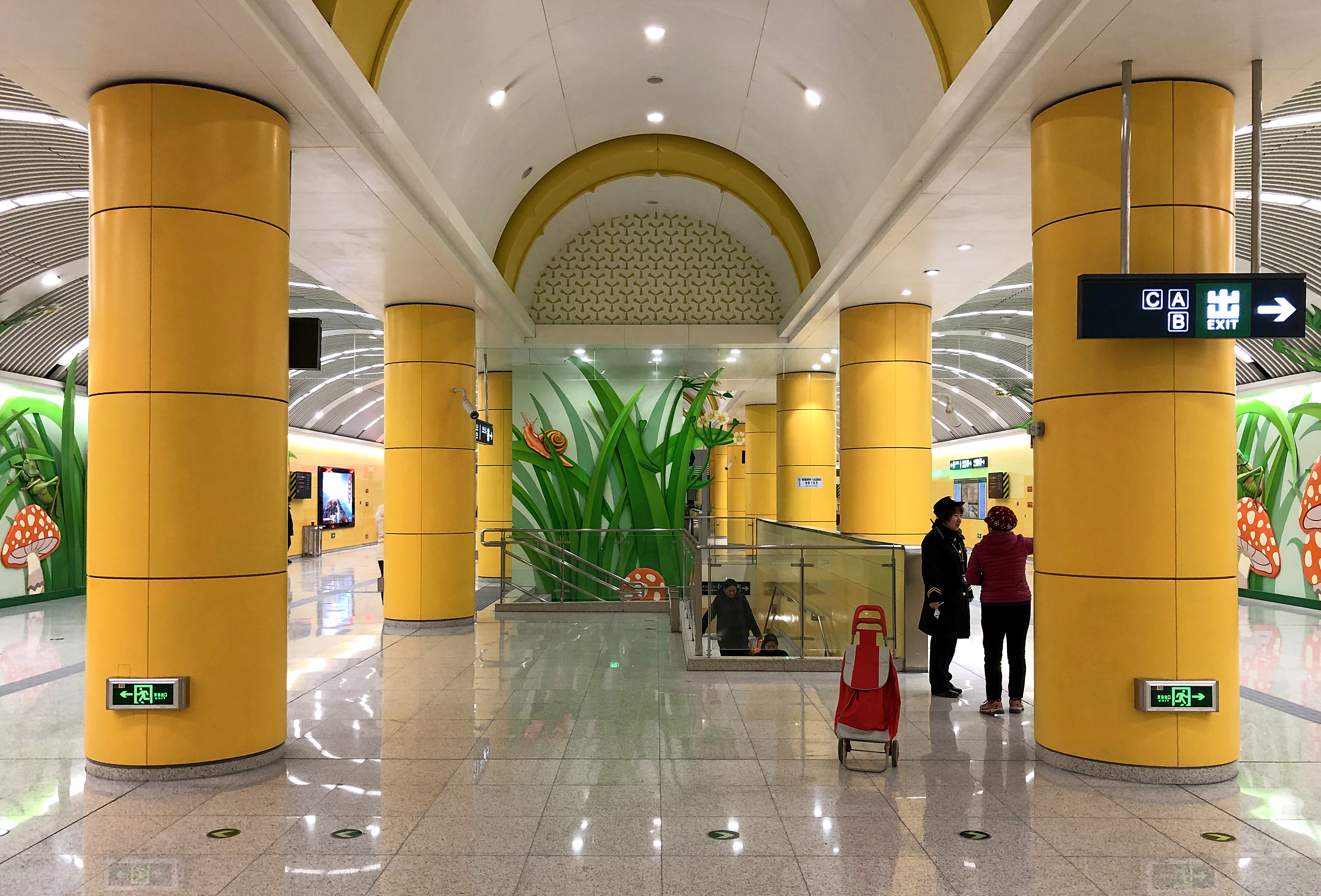 Clover everywhere.